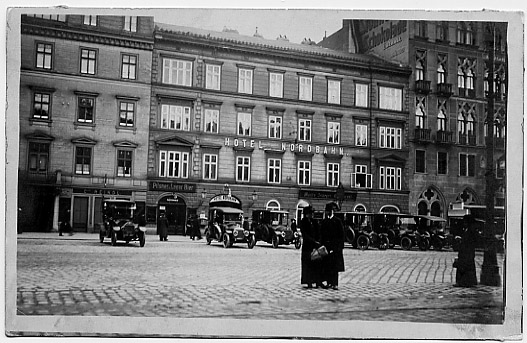 Historic View of the Hotel Nordbahn and Dogenhof to the right in Vienna Leopoldstadt (Praterstraße 72)